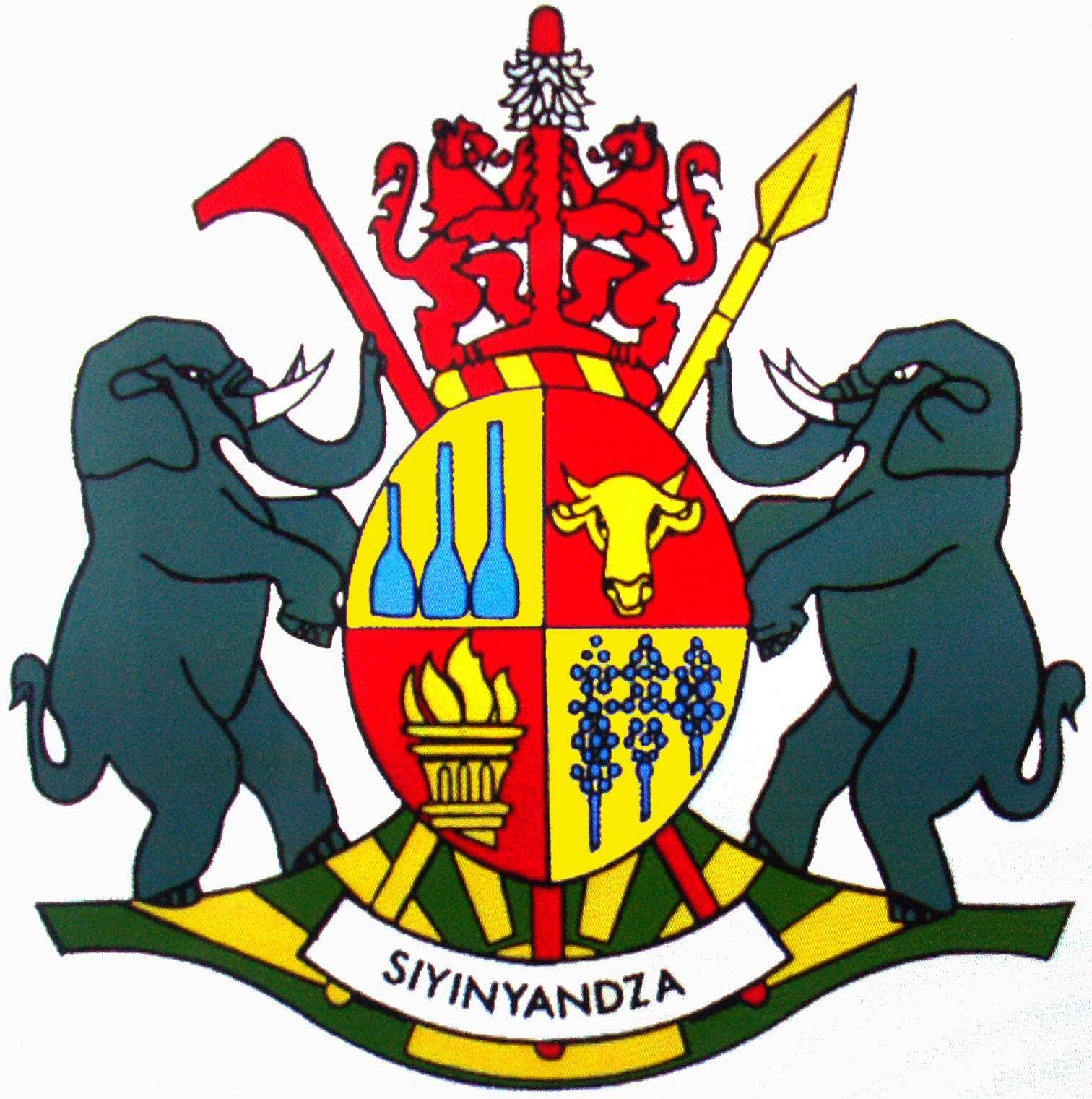 KaNgwane coat of arms